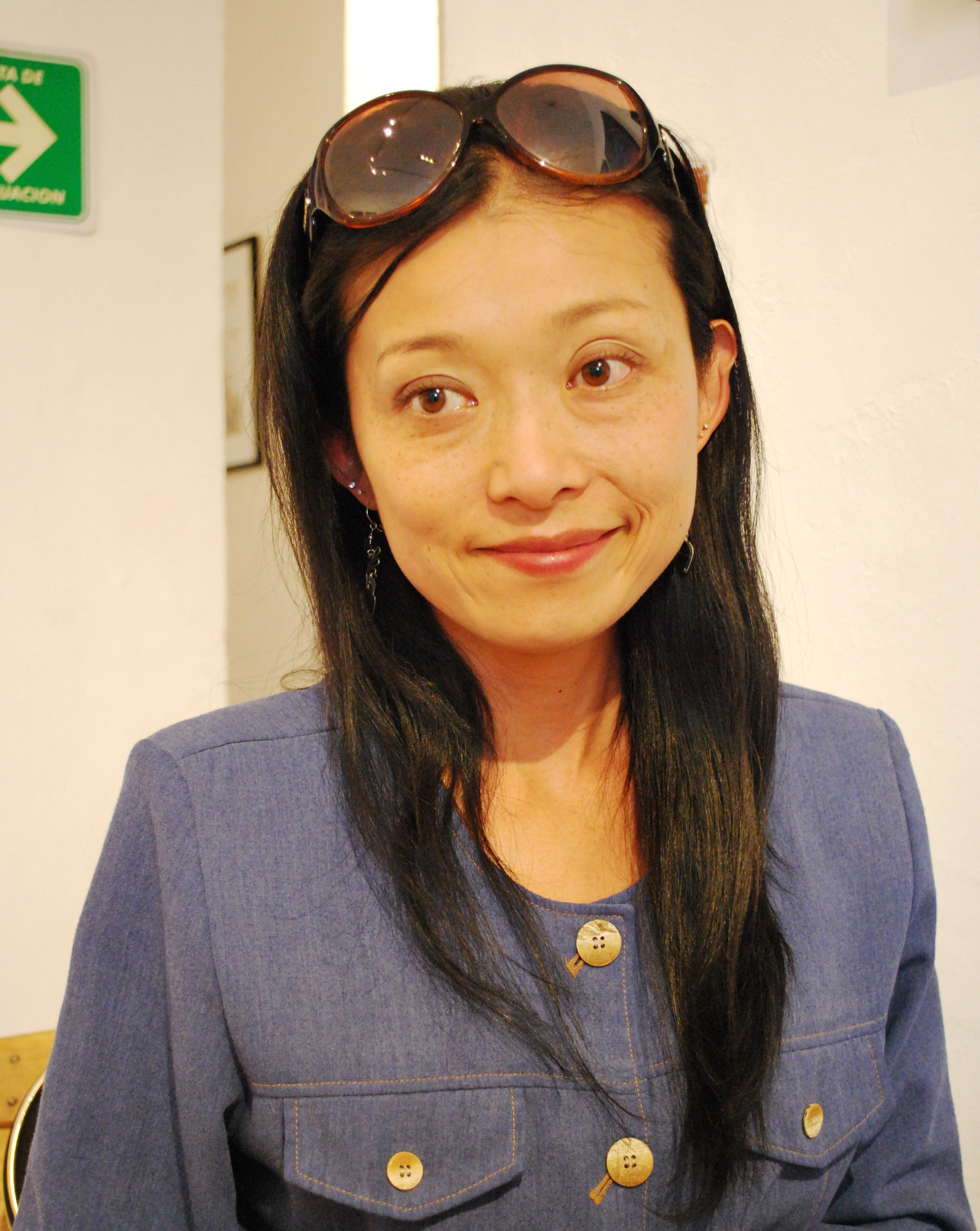 Japanese artist in Mexico Shino Watabe taken at the Garros Galería in Mexico City